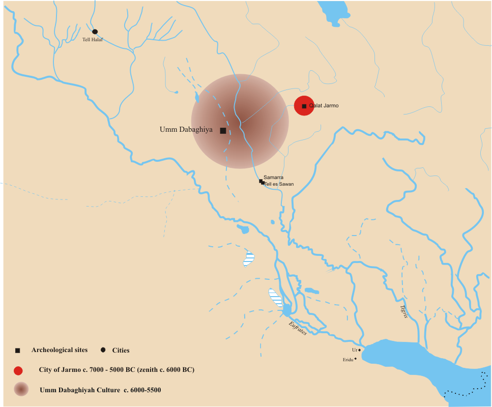 Mesopotamia_7000-6000 BC